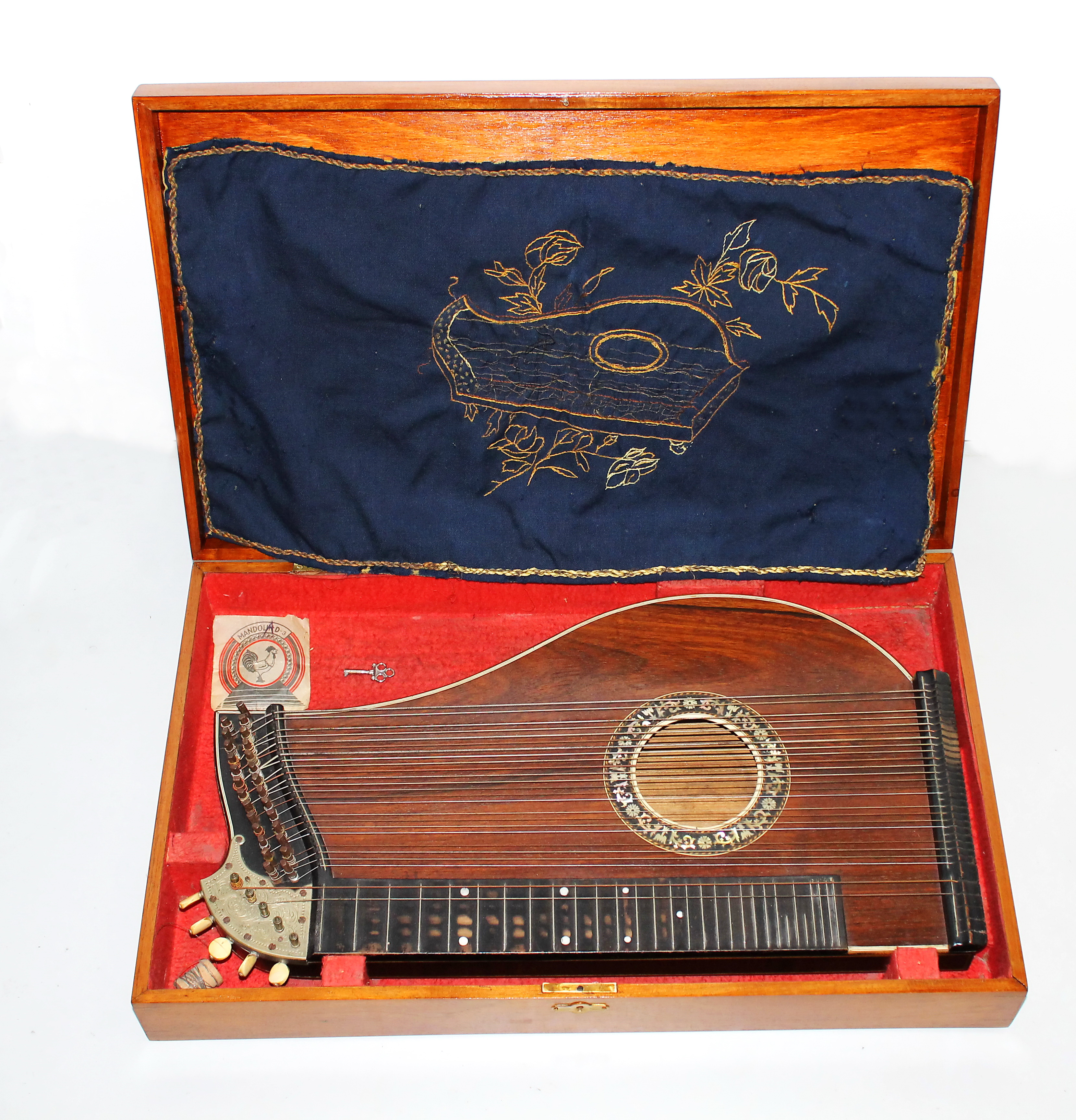 Guitar zither, now located in Museum of Science and Technology Belgrade.